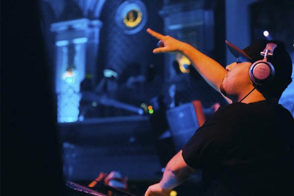 Erick Orrosquieta